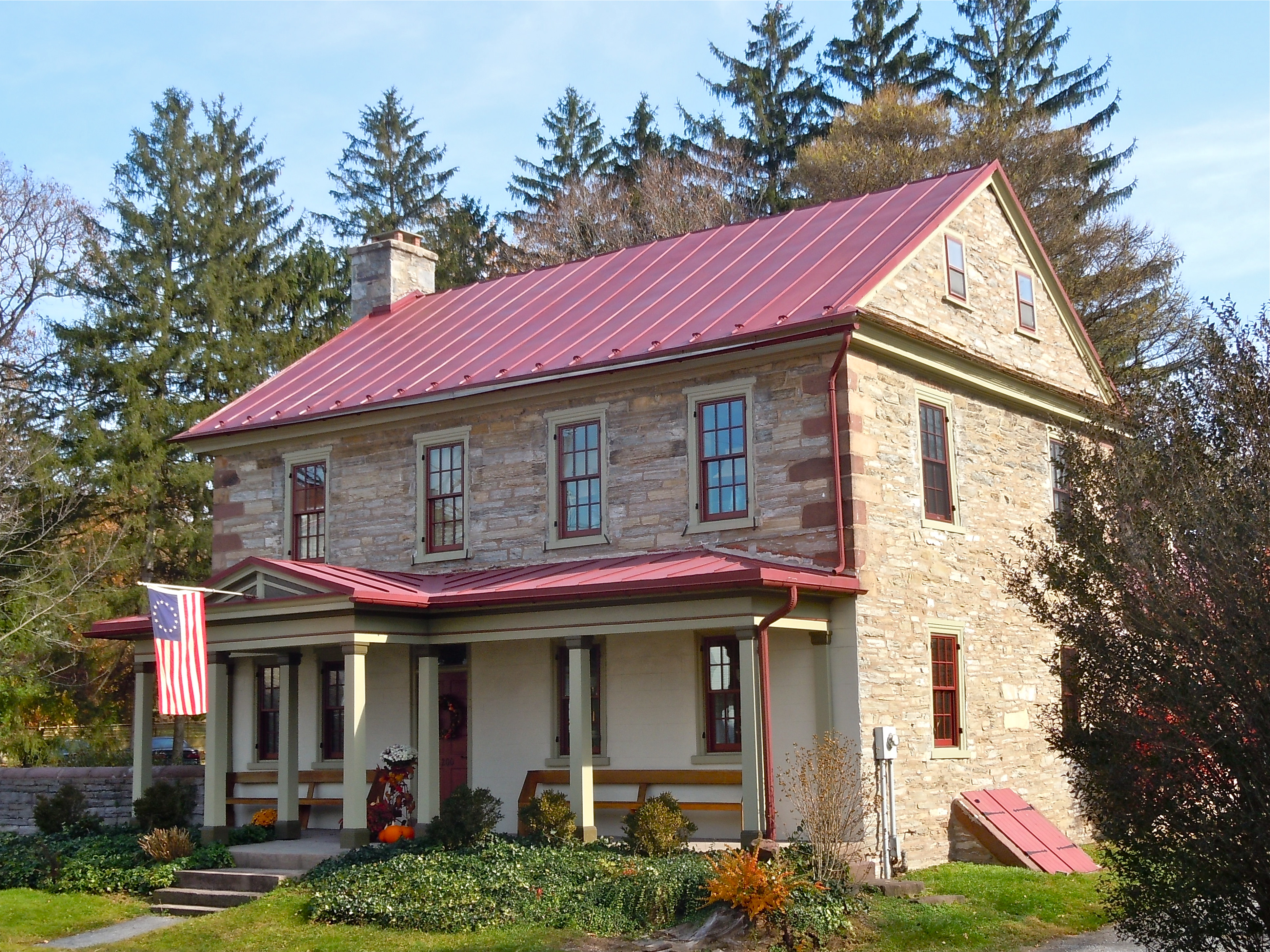 Philip Erpff House on the NRHP since November 20, 1979. On South Market Street in Schaefferstown, Heidelberg Township, Lebanon County, Pennsylvania. Near Fountain Park.